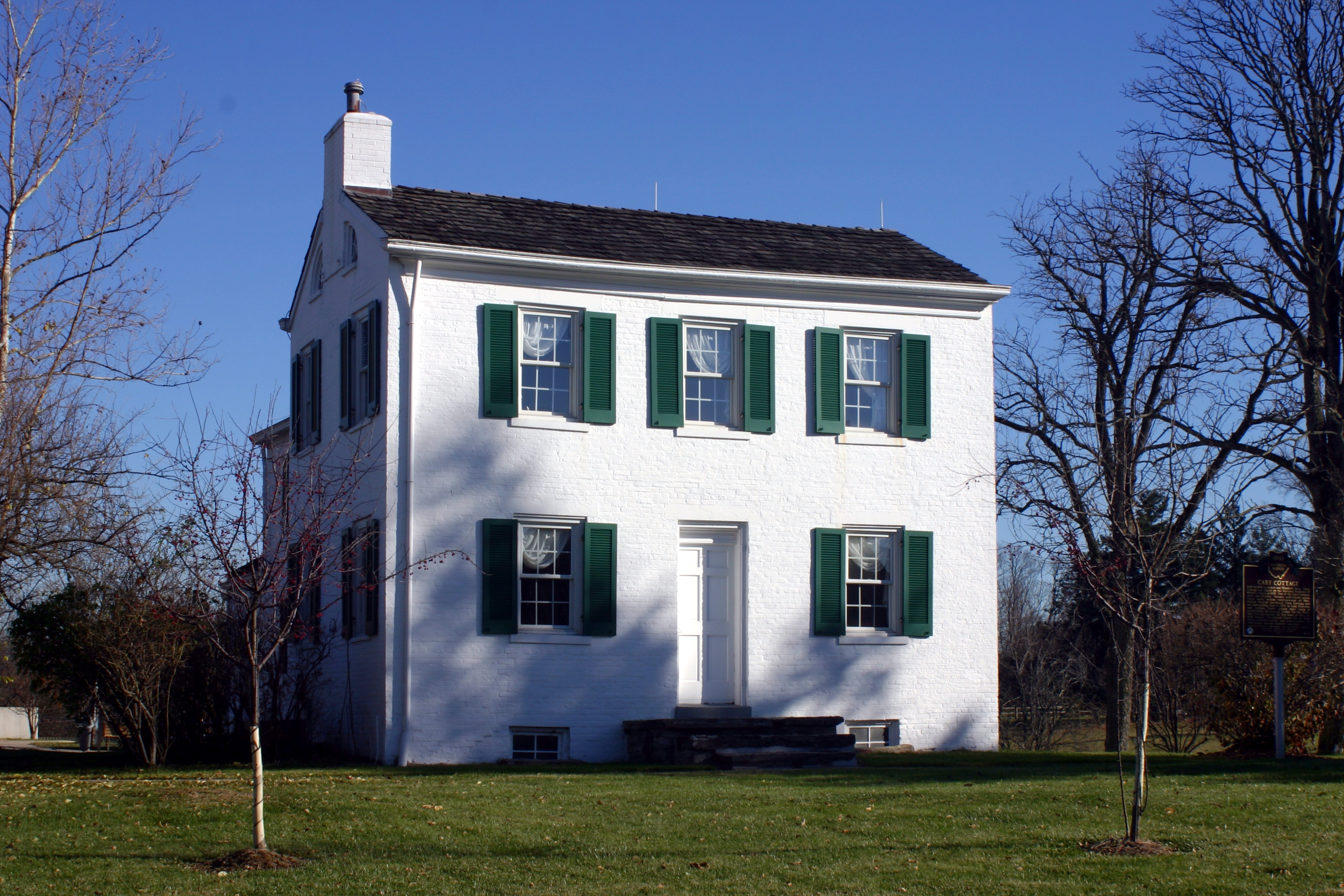 Cary Cottage, photographed by Rick Dikeman. Built in 1832, the cottage was the family home of Robert and Elizabeth Cary, who in 1813 purchased of land north of Cincinnati in what is now North College Hill. Two of the Cary children, Alice and Phoebe, who lived in the house from 1832 to 1850, became well-known poets whose works included reminiscences of Ohio. Cary Cottage became the first home in Ohio for blind women. It was placed on the National Register of Historic Places in 1973.